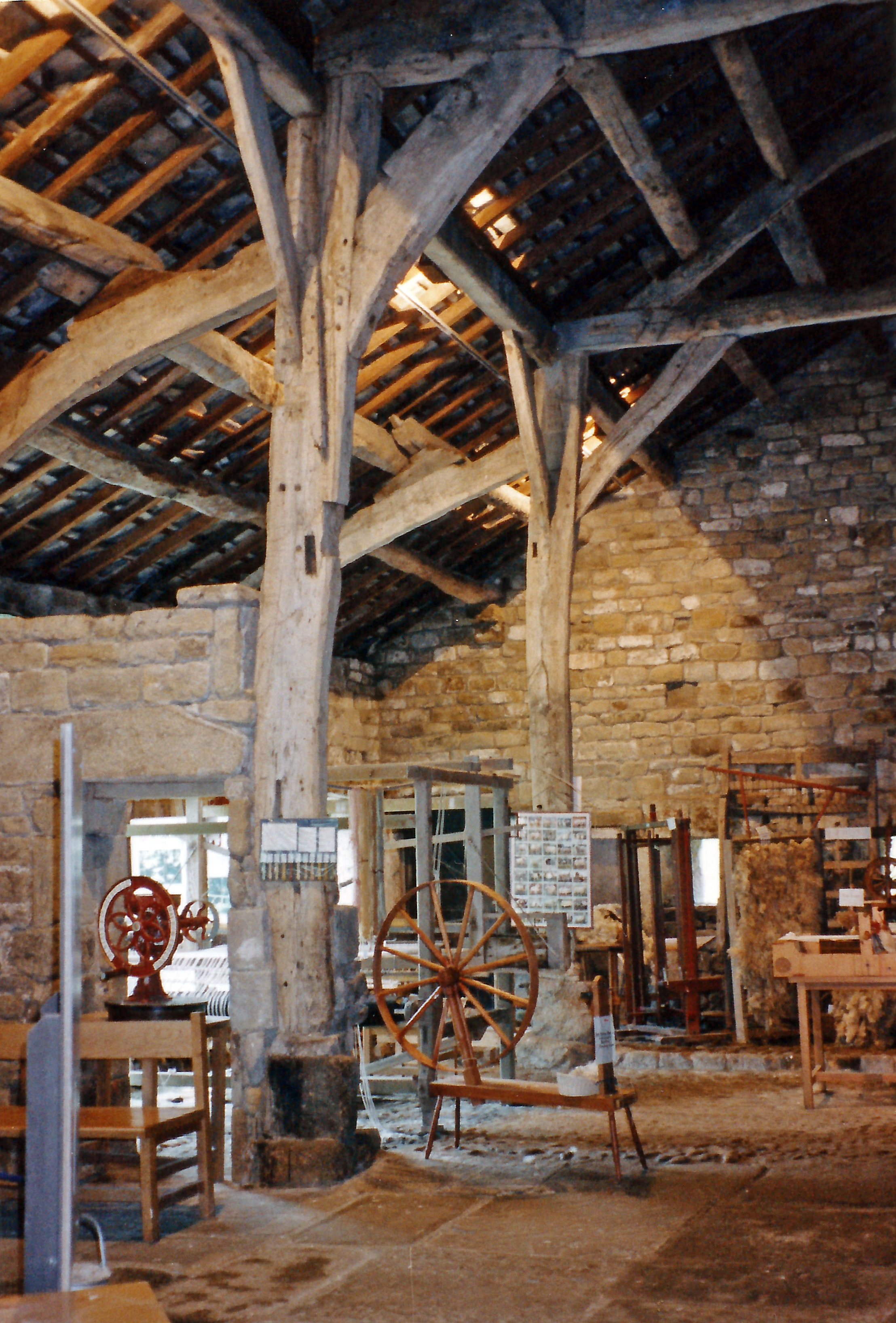 Inside Wycoller Craft Museum, Pendle, Lancashire, England